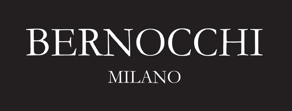 Bernocchi Fashion Brand, Milano, 2008